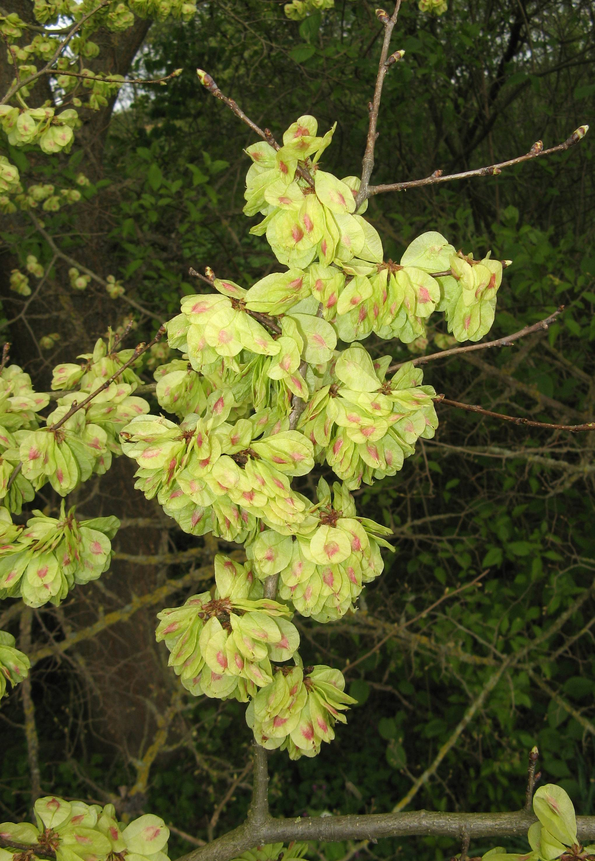 seeds of field elm